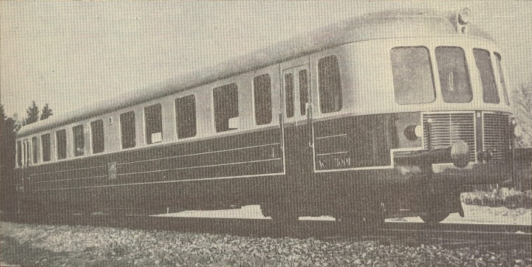 Railcar 1001 of future series 0100 of Companhia dos Caminhos de Ferro Portugueses (Portuguese Railways Company), shortly after its arrival at Portugal. This image was published on the Gazeta dos Caminhos de Ferro magazine no. 1465, of the 1st January 1949, and scanned by the Hemeroteca Municipal de Lisboa.